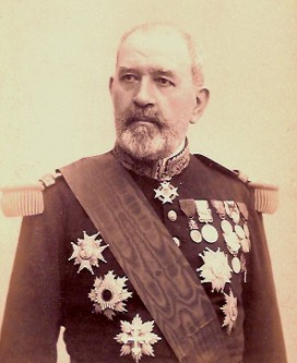 Depicted person: Henri Rieunier – French politician